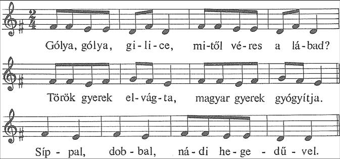 Hungarian folk_song (text and music) 'Gólya,_gólya,_gilice'. To be used in an article about 'Out of Doors', a set of five piano pieces by Béla Bartók